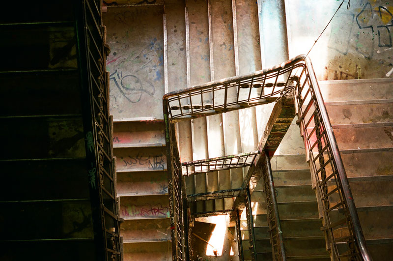 Top of staircase, Kunsthaus Tacheles in Berlin, 2007.